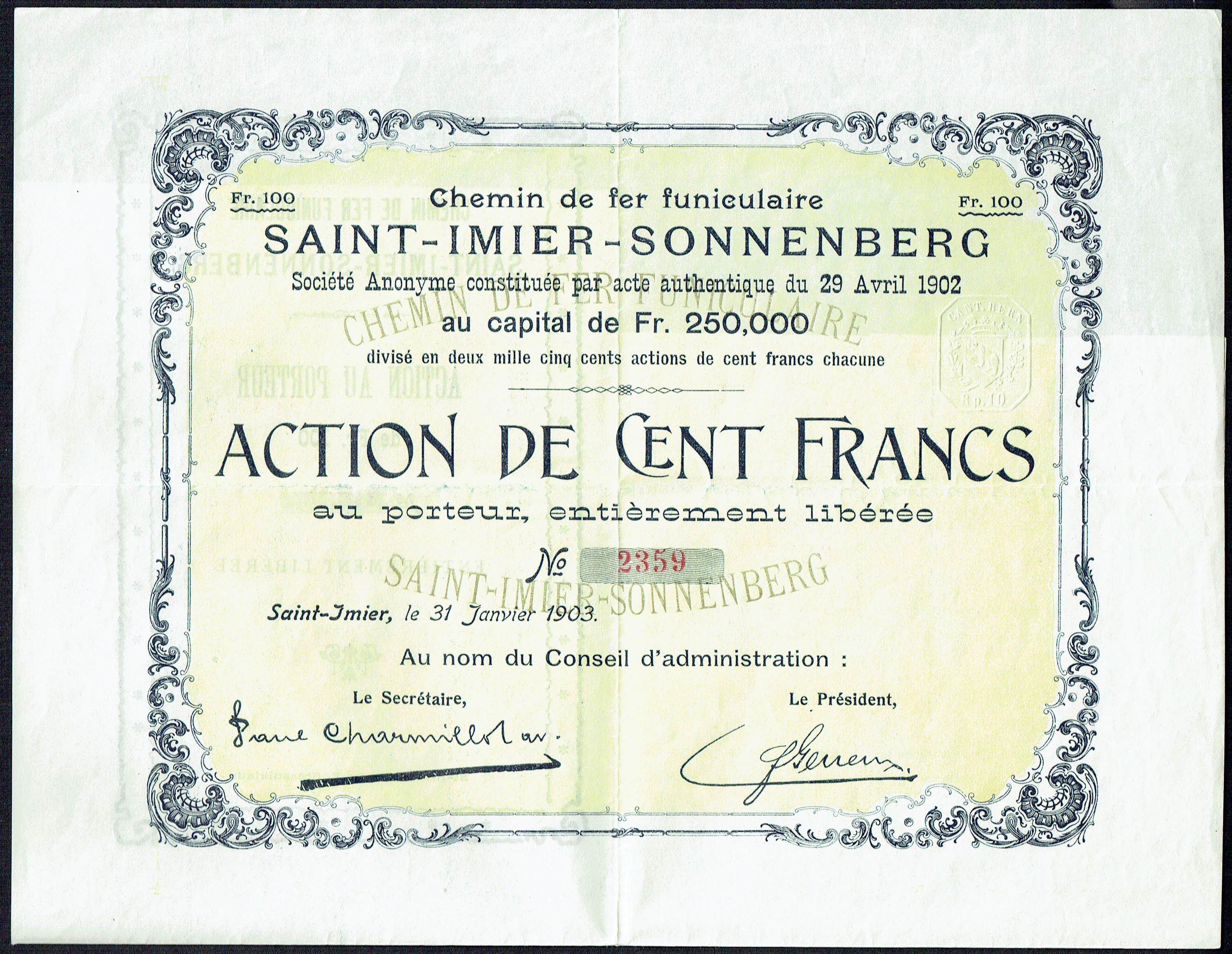 Share of the company Chemins de Fer Funiculaire Saint-Imier-Sonnenberg, issued 31. January 1903